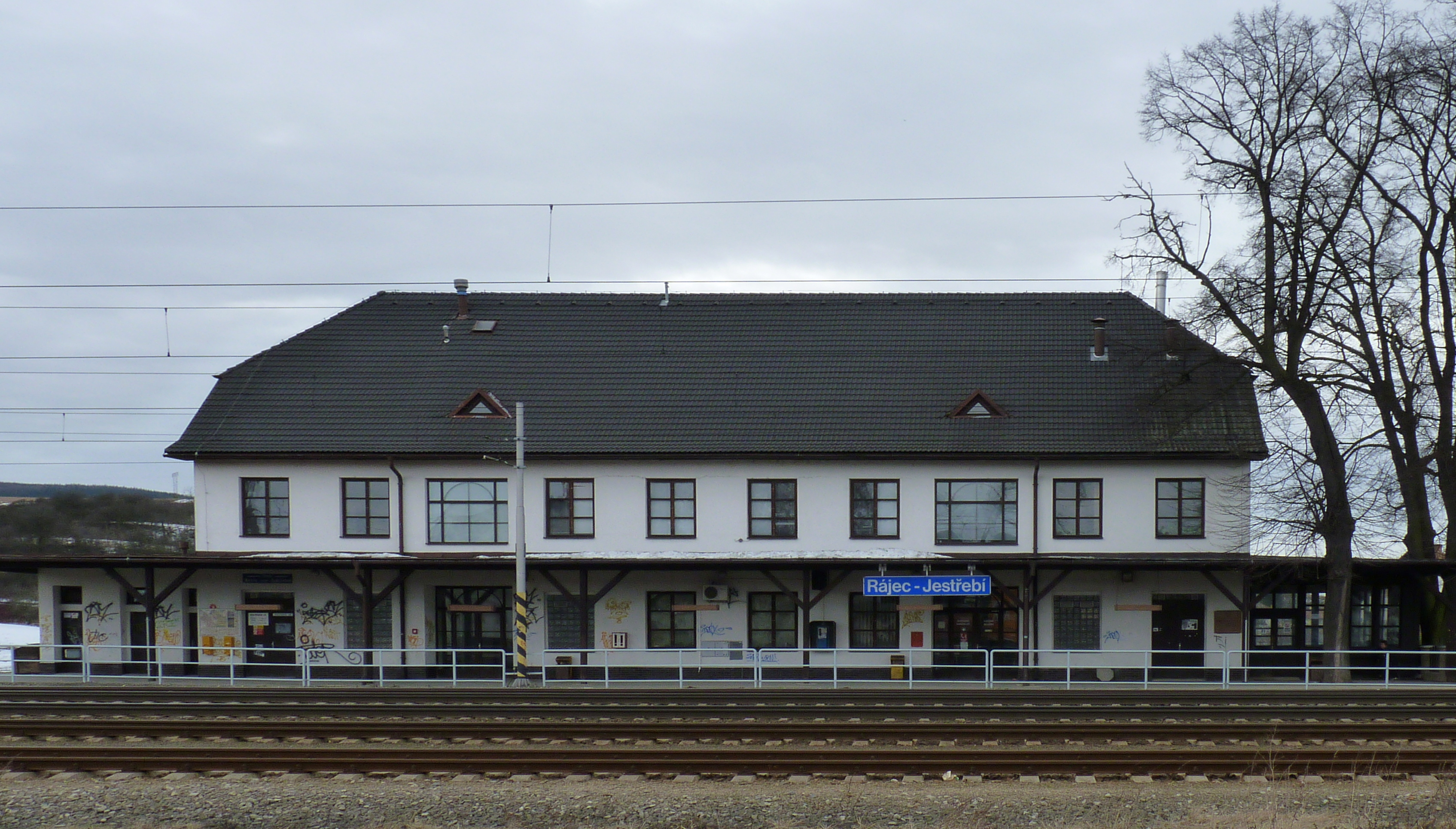 Train station, Rájec-Jestřebí, South Moravian Region, Czech Republic